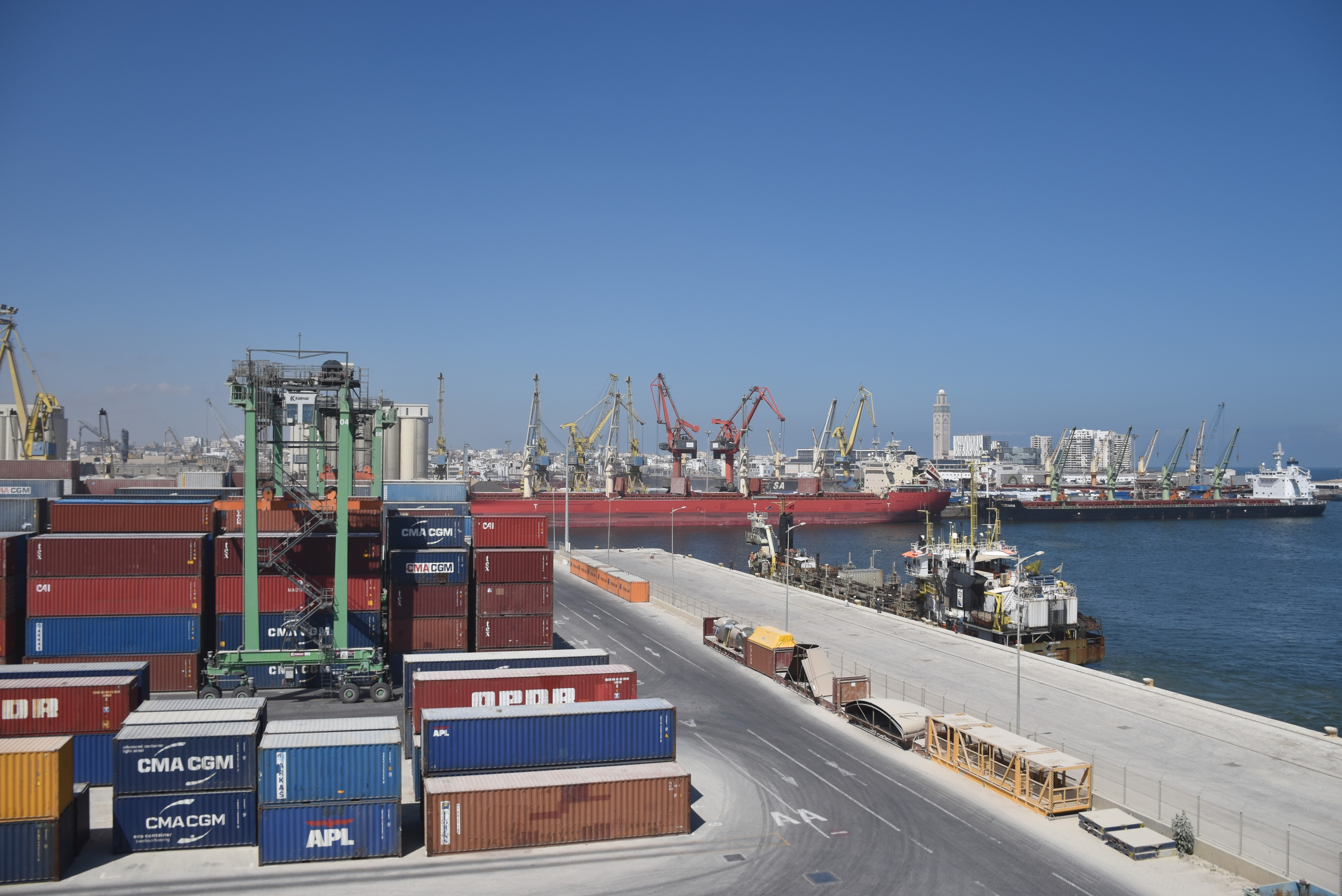 Casablanca port, July 2018